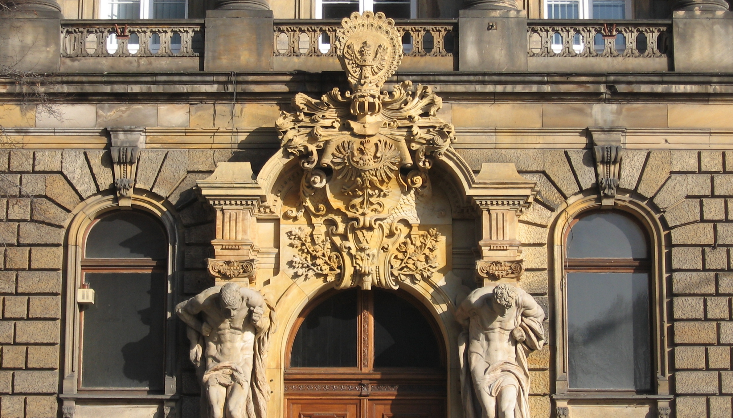 Coat of arms of (Lower) Silesia in Wrocław (Breslau) Ślůnski: Wapyn Ślůnska we Wrocławju